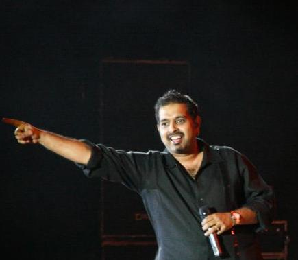 Shankar Mahadevan performing on the steps of the Asiatic.